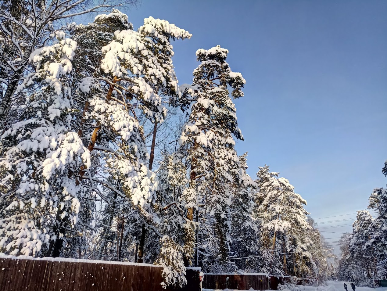 Winter in Ilyinsky